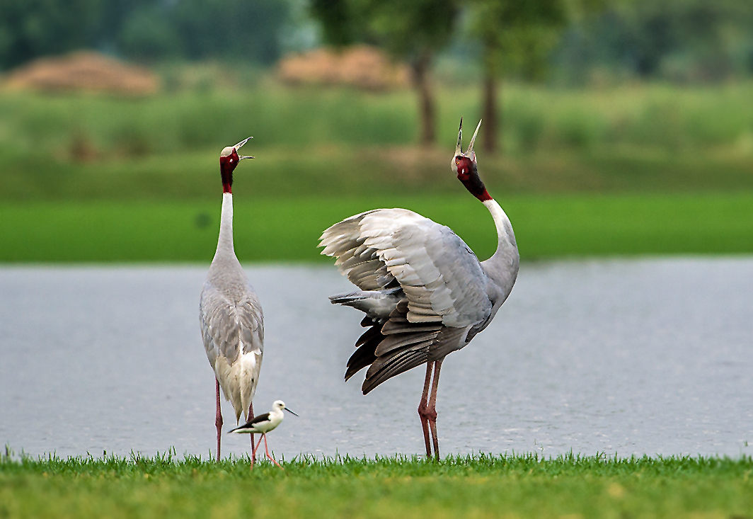 Sarus Crane (Grus antigone) is a resident bird of mist of India. They pair for life and are consideed to be the symbol of filial loyalty. A pair in courtship display in Dhanauri Wetland, near Delhi